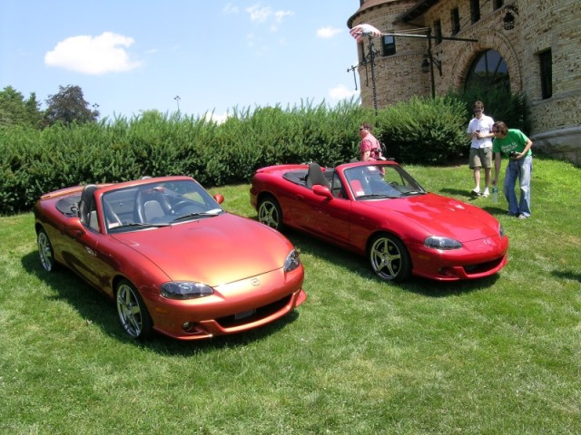 05 Lava Orange Mazdaspeed Miata next to 04 Velocity Red Mazdaspeed Miata